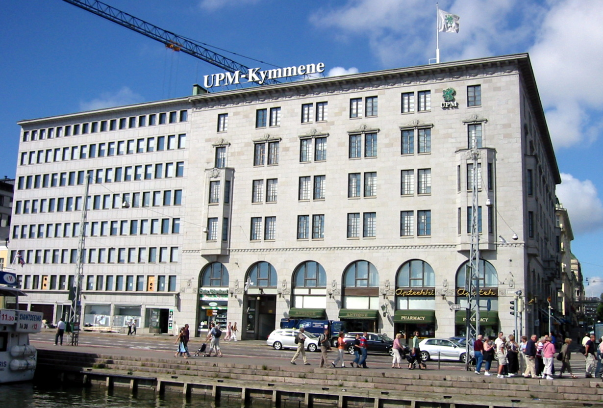 UPM-Kymmene headquarters in Helsinki, Finland.